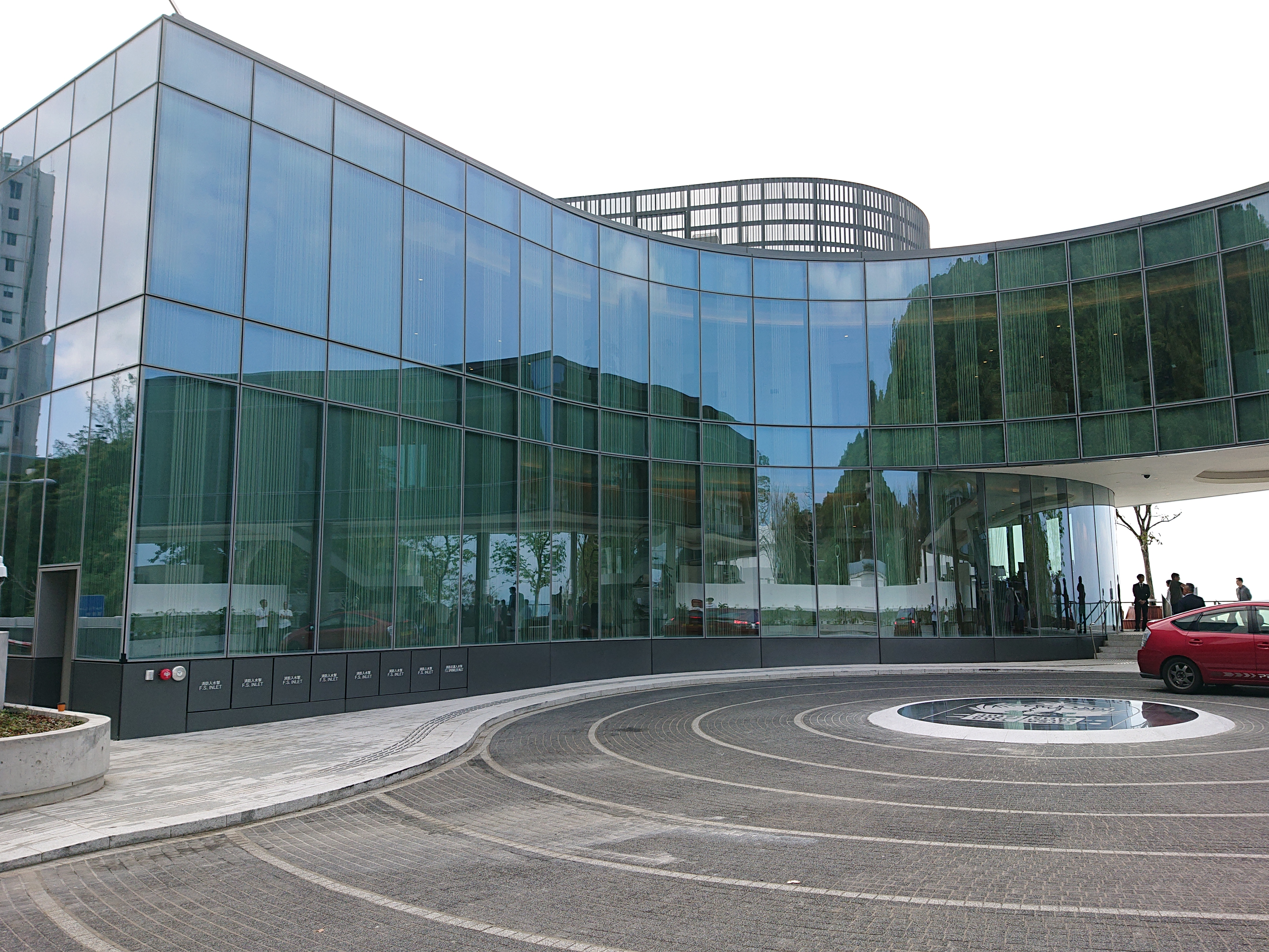 University of Chicago Hong Kong Campus